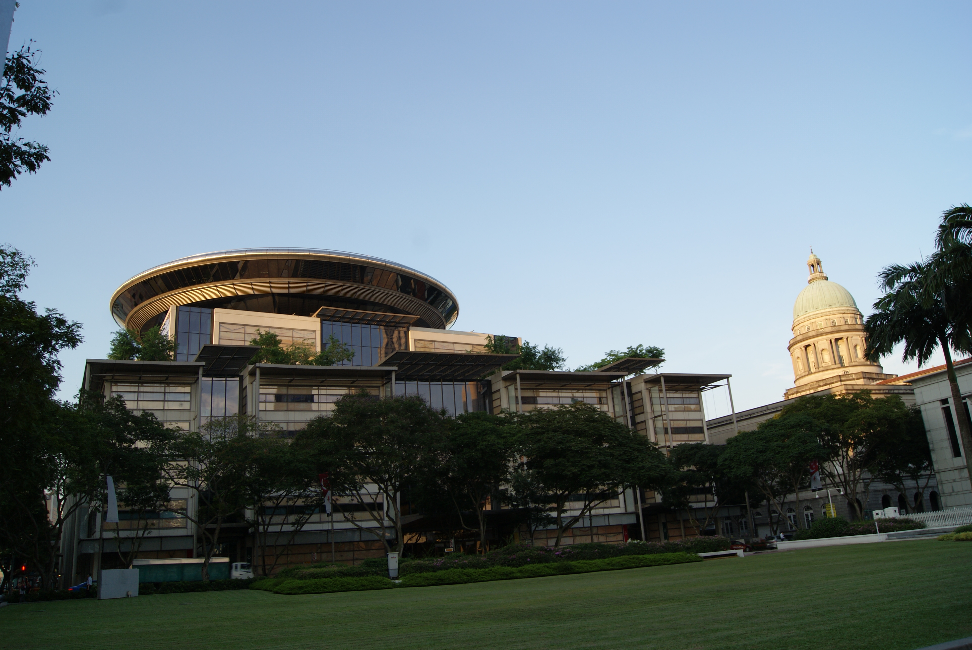 The Supreme Court of Singapore (left) and the dome of the Old Supreme Court Building (right), photographed from the lawn of Parliament House.